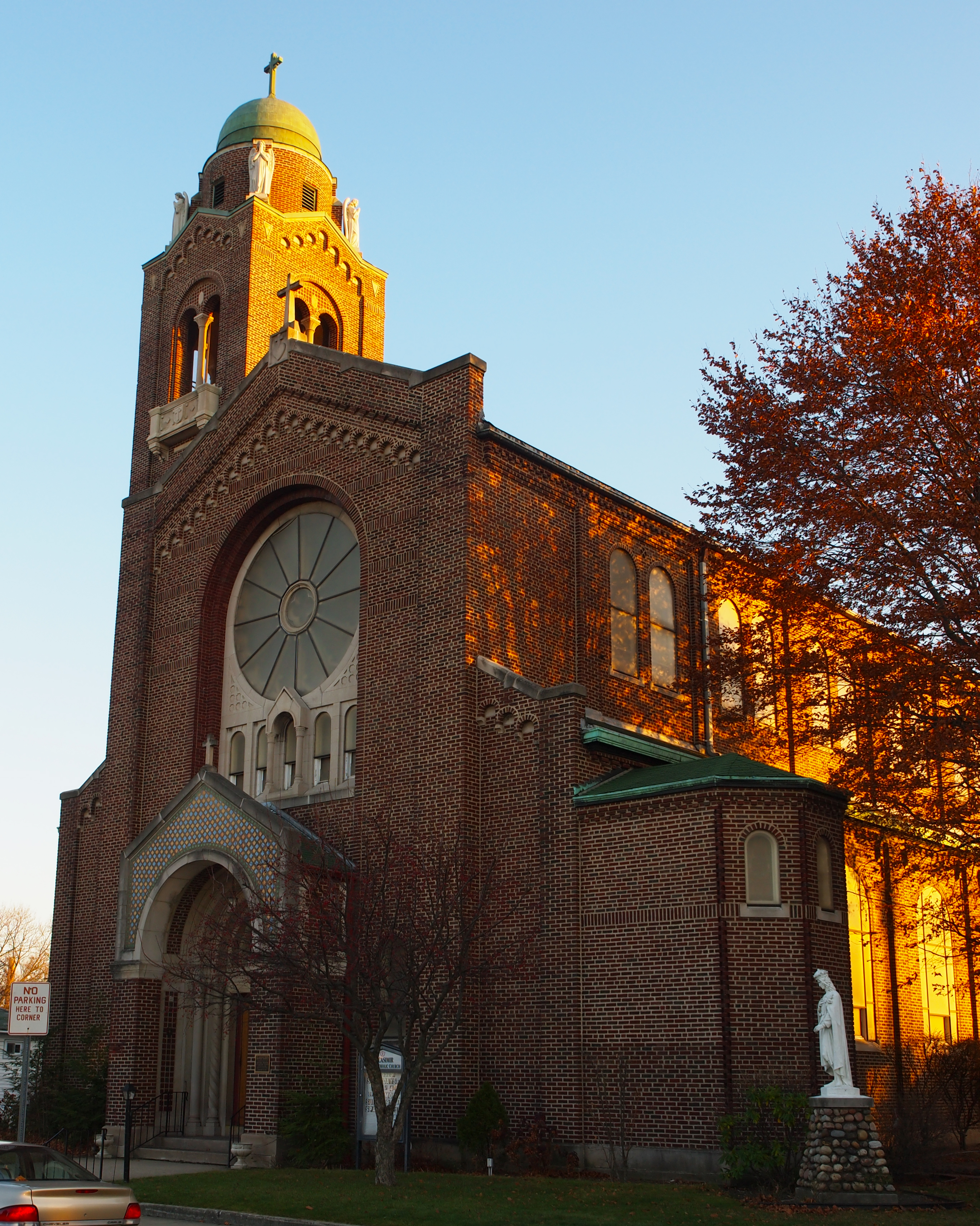 St. Casimir Parish, South Bend, designed by the Chicago architecture firm of Wortherman and Steinbach, is an imposing structure that displays considerable Romanesque Revival influence but features a soaring Italian Renaissance dome-topped campinile at its northeast corner, bedecked with four large statues of angels. The church boasts a large rose window surrounded with glazed tile above its round-arched entrance portal roofed with curved tile.